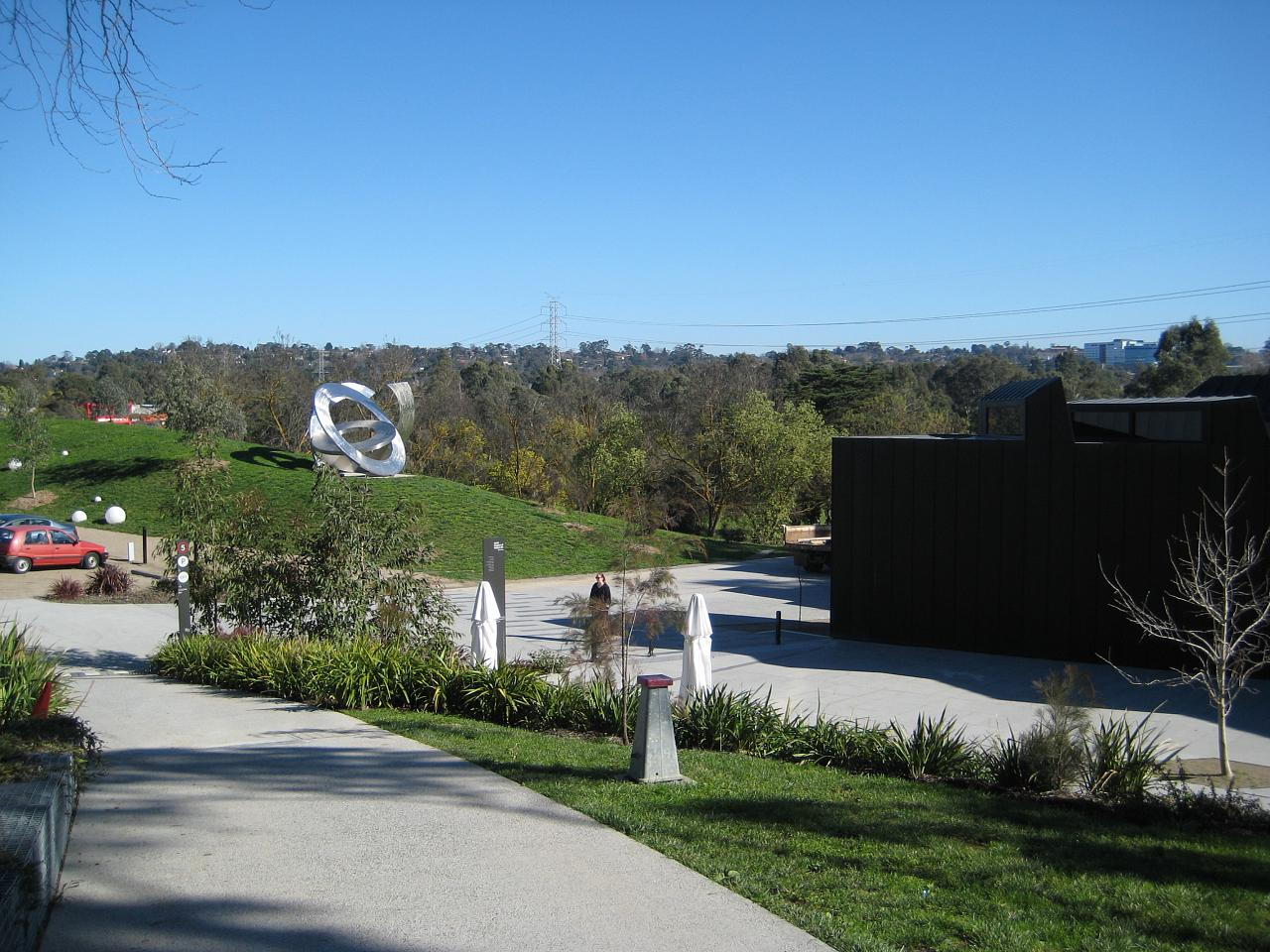 Heide museum of Modern Art in Bulleen, Victoria/Australia